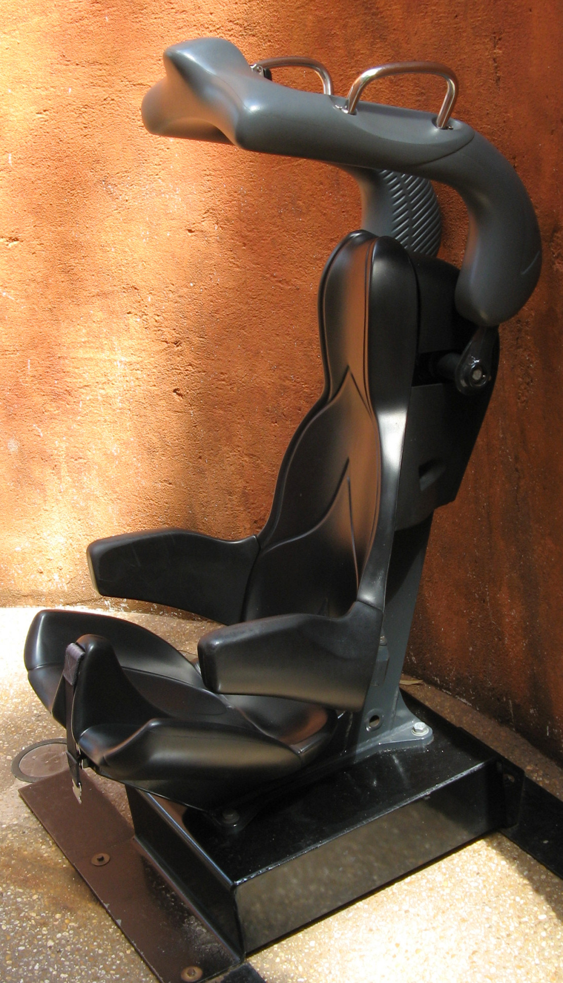 Sheikra coaster seat, Busch Gardens Africa, Tampa, Florida / 2007